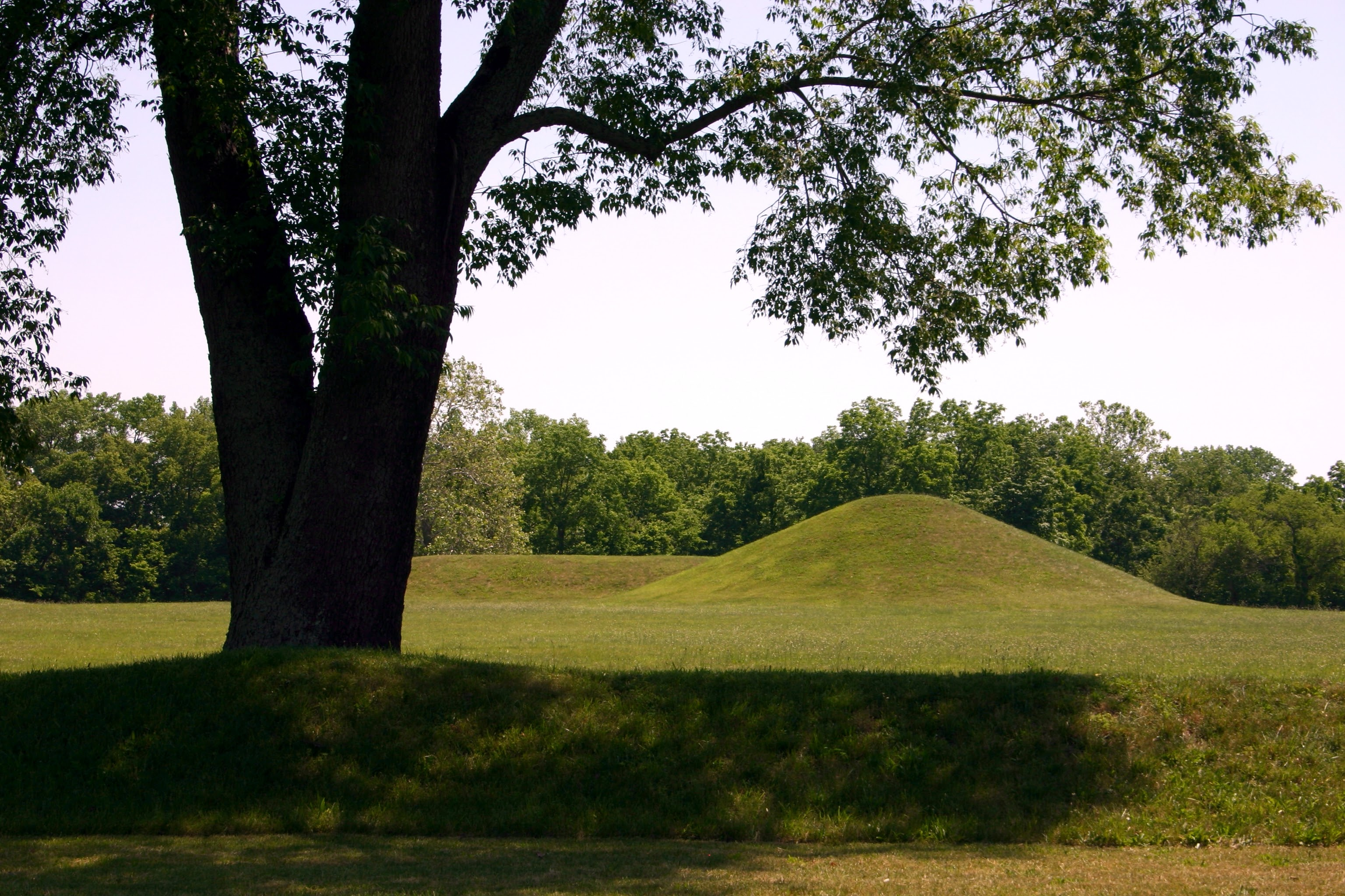 Indian mounds at the Mound City site in Hopewell Culture National Historical Park, Chillicothe, Ohio, 6/16/2006 画像:800px-Hopewell culture nhp mounds chillicothe ohio 2006.jpg